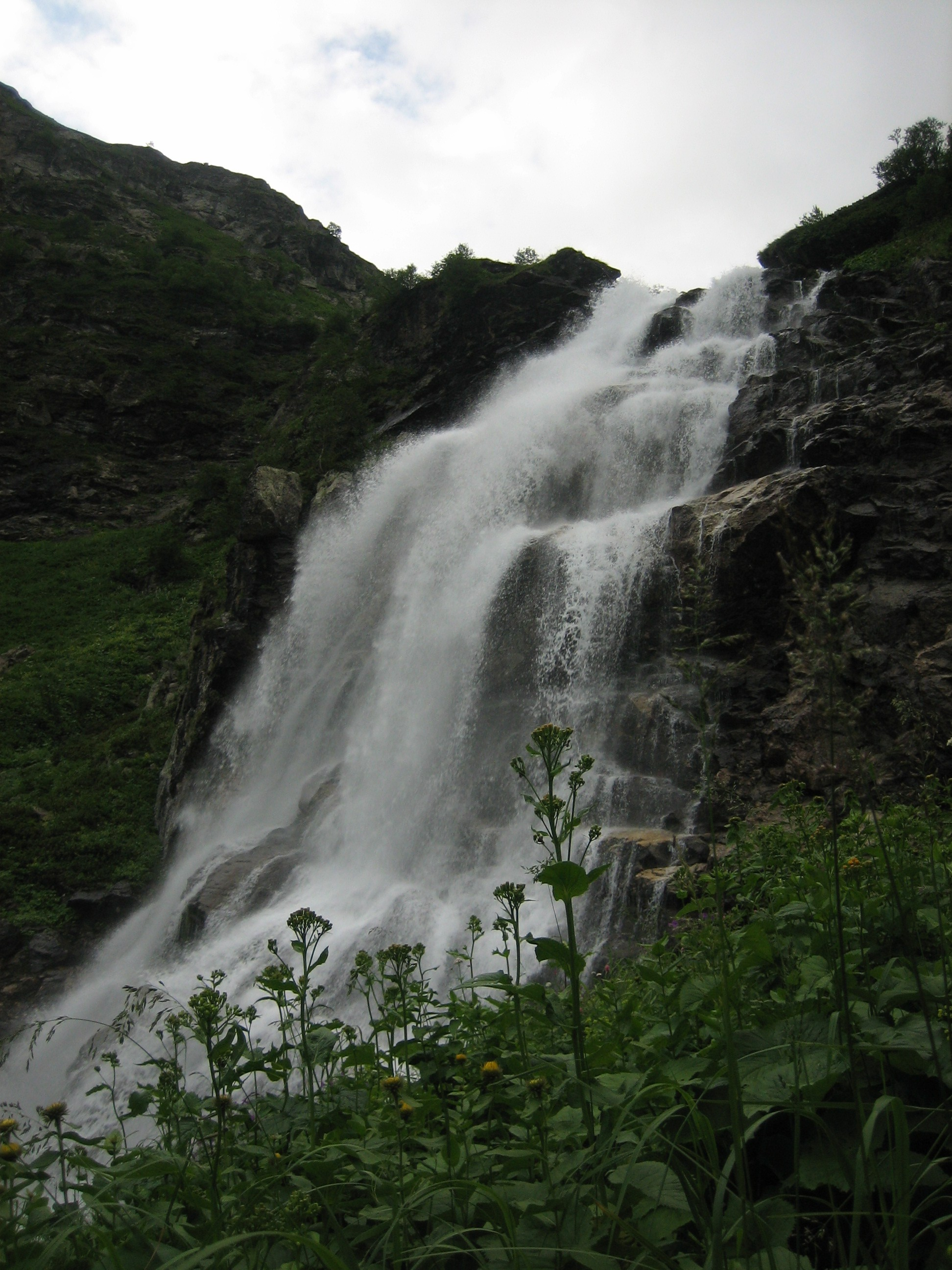 Urupsky District, Karachay-Cherkessia, Russia